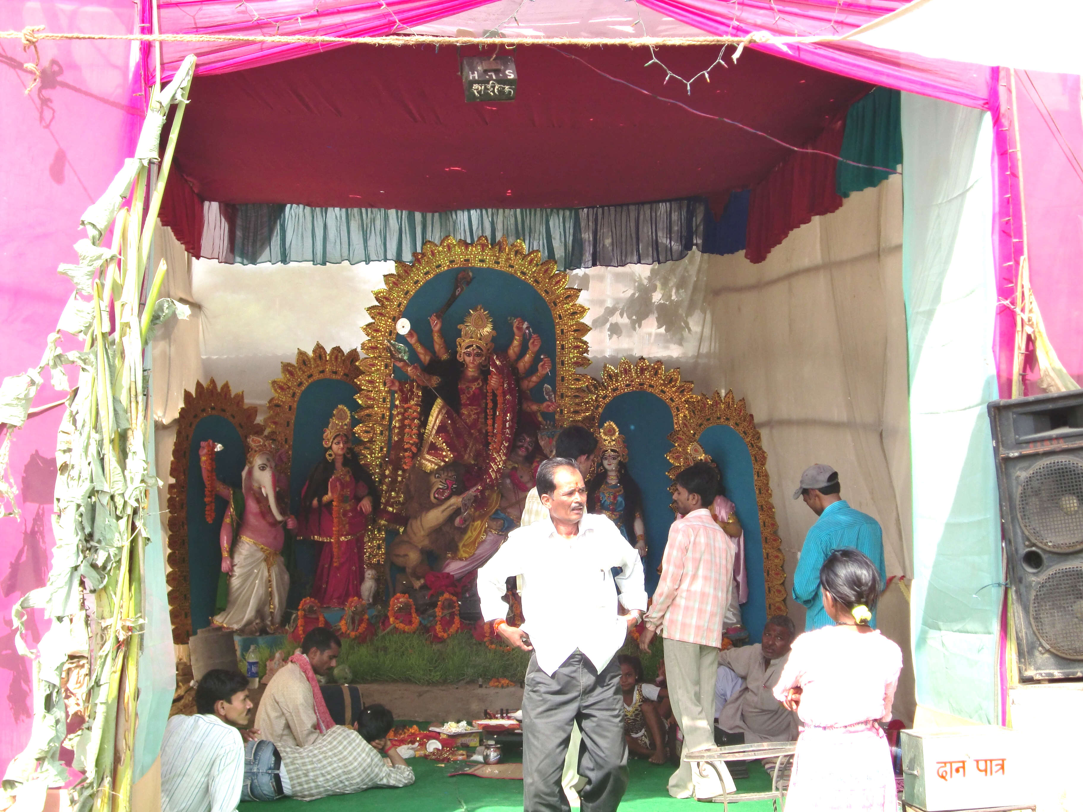 Durga puja at gurgaon near New-deli,This is last day of festival,people take the durga to river this evning.